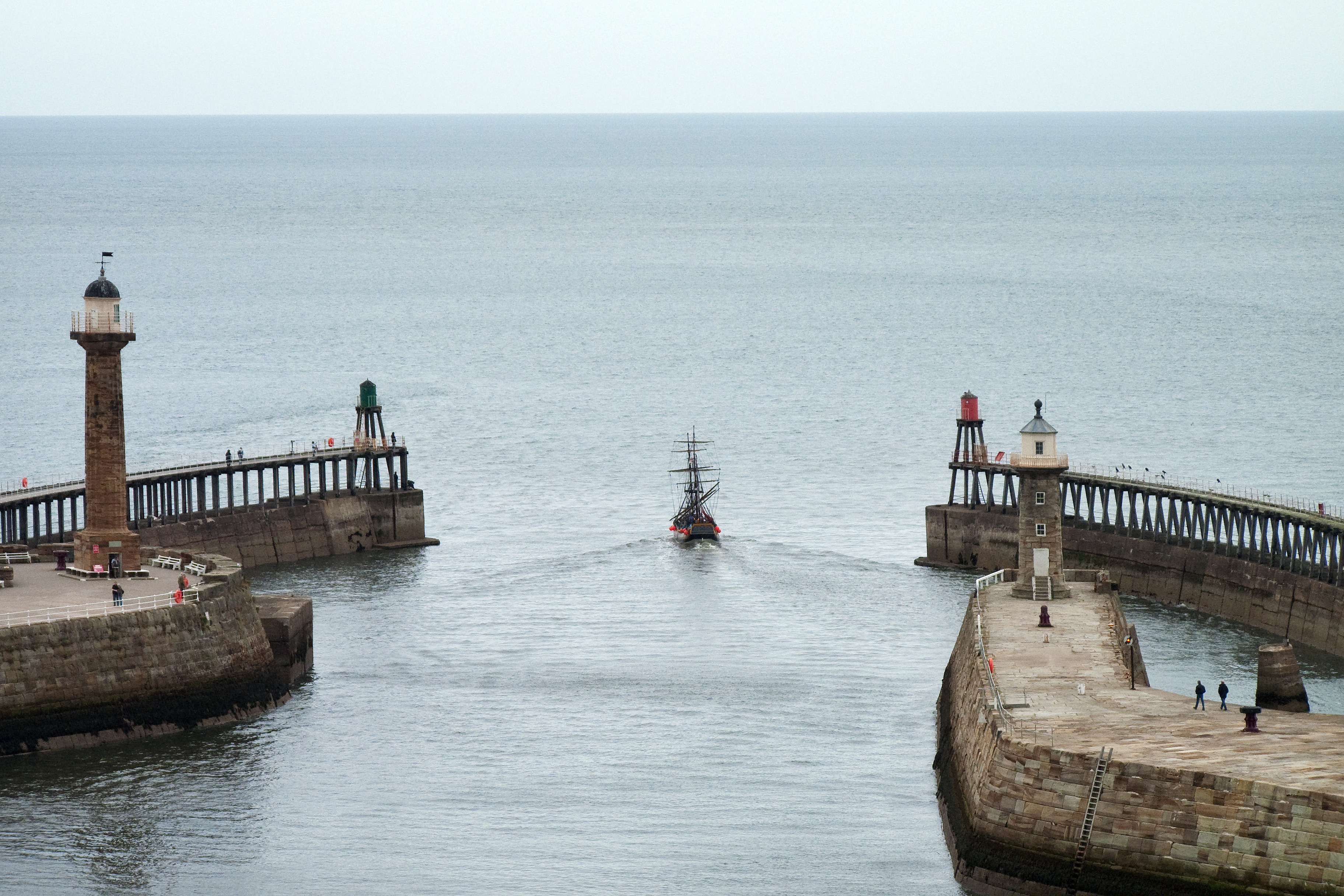 Boat leaving Whitby port, Yorkshire, England